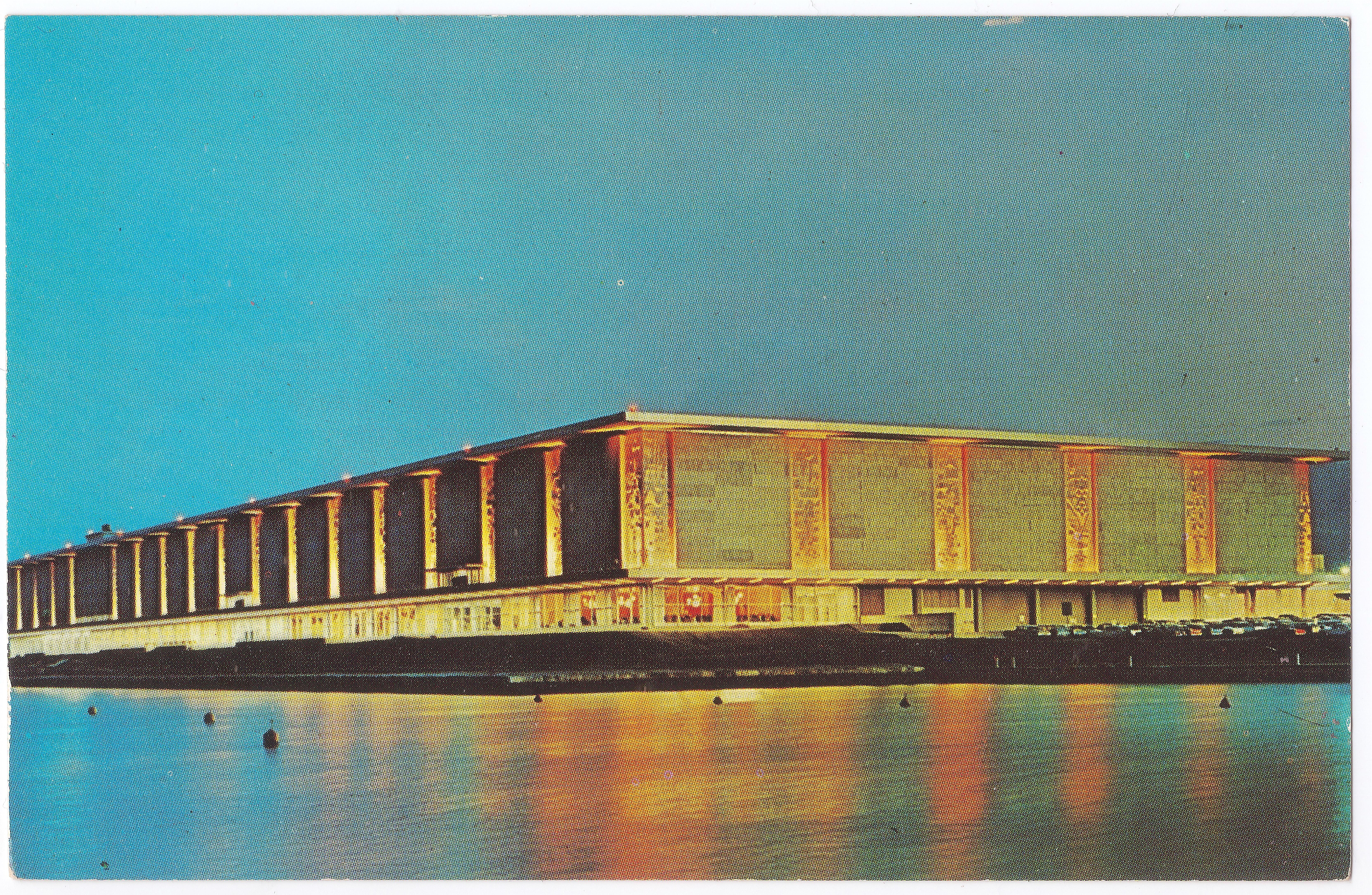 The original McCormick Place, completed in 1960, seen here in 1966 from Lake Michigan.